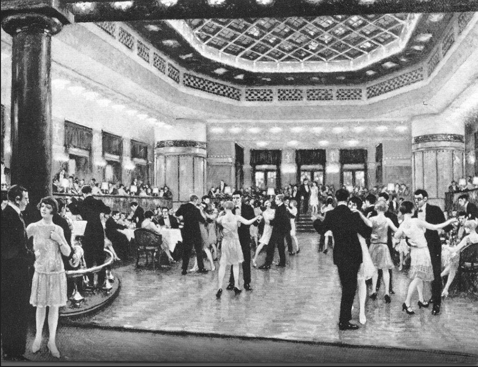 The ballroom of Palace Hotel in Copenhagen, Denmark